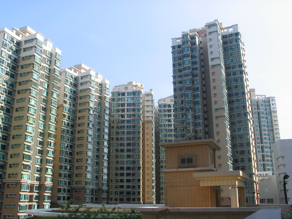 珀麗灣一期A Phase 1A of Park Island